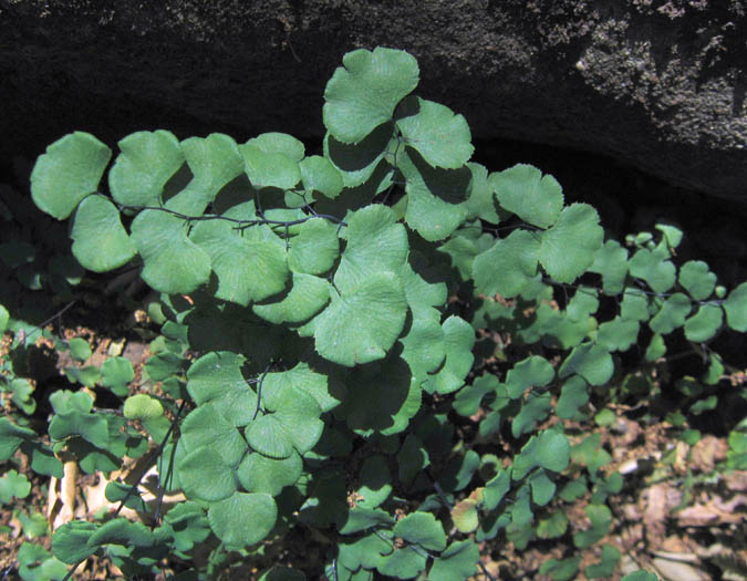 Adiantum jordanii — California maidenhair fern. In the Santa Monica Mountains National Recreation Area, California. NPS photo , No copyright.